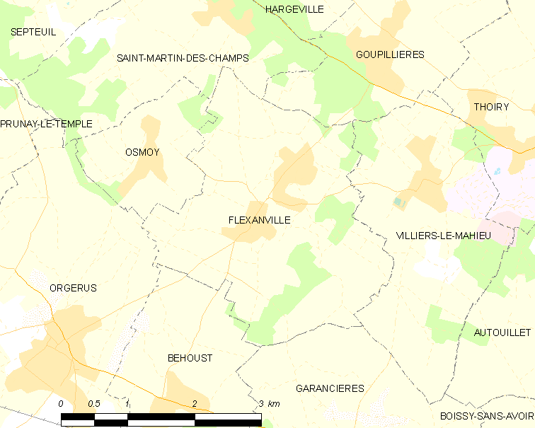 Map of French municipality Flexanville